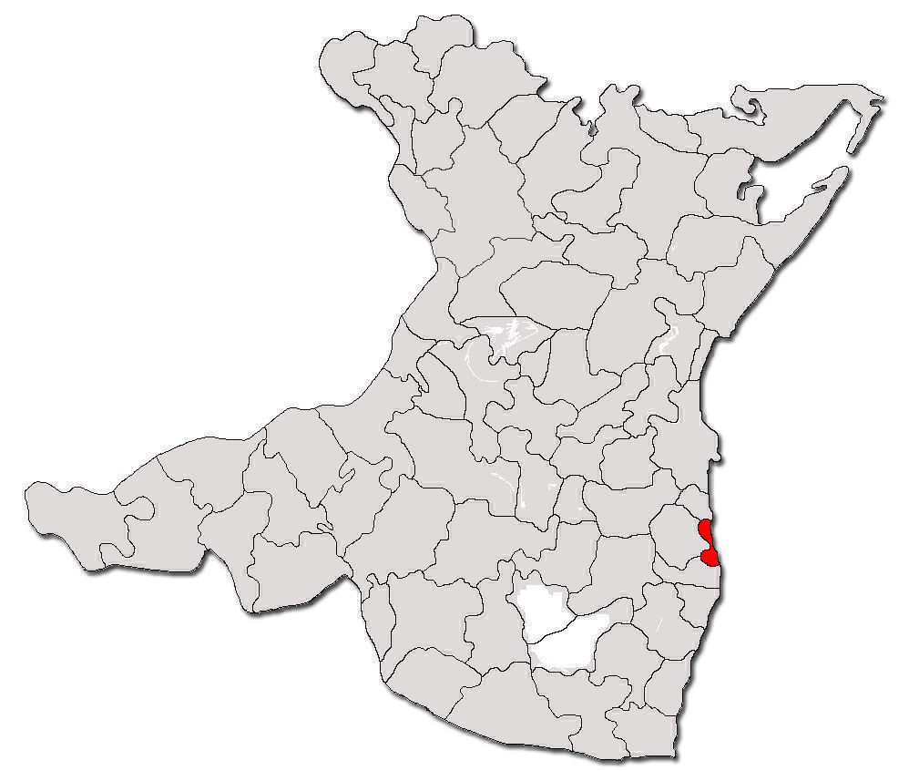 Contour map of commune Eforie